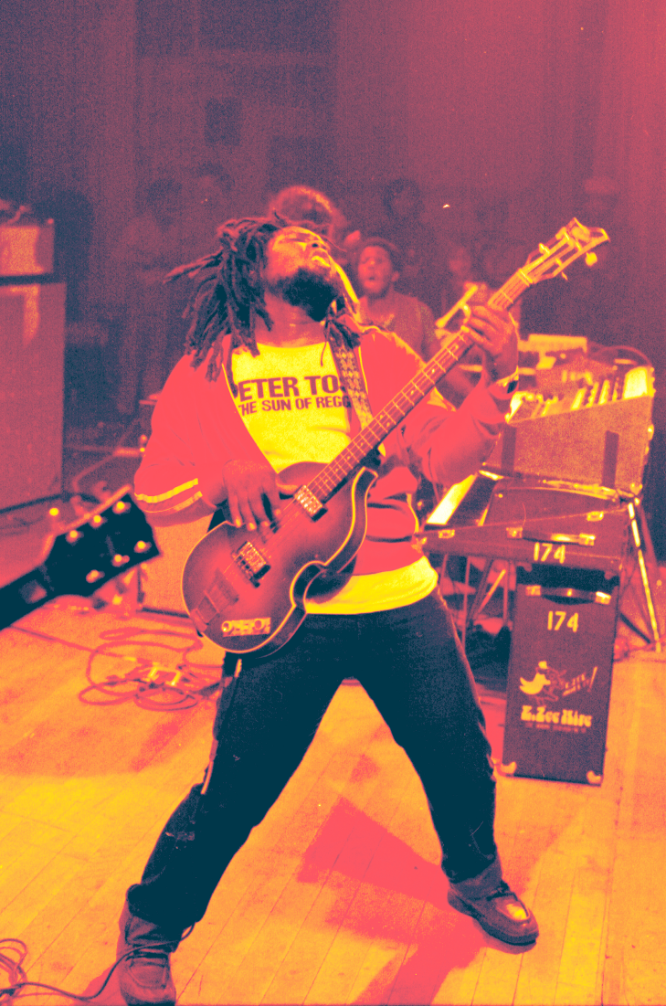 Robbie Shakespeare, on tour with Peter Tosh, Sophia Gardens, Cardiff. Keith Sterling in background.